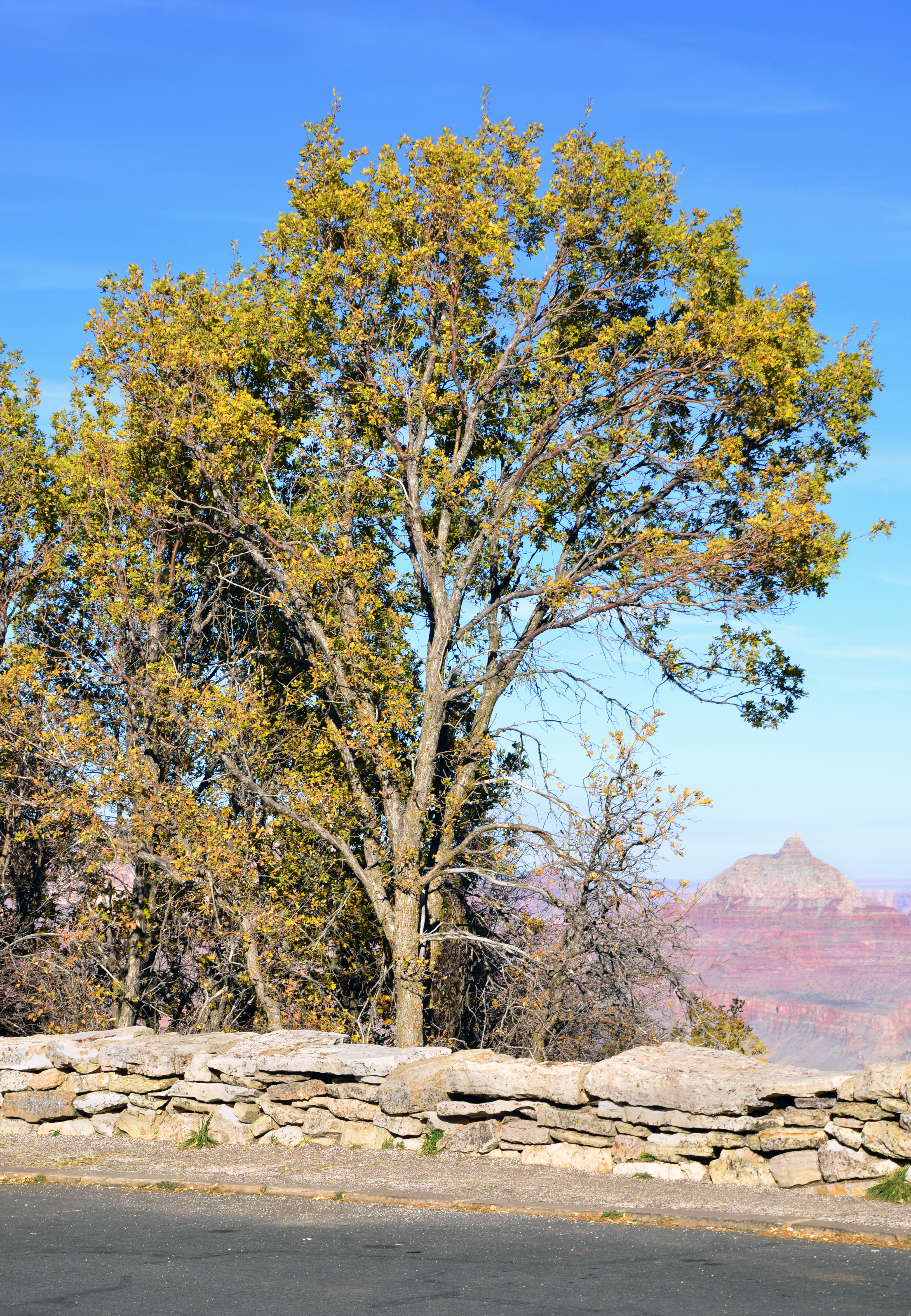 Quercus gambelii — Gambel Oak. Location Second overlook along Desert View Drive on the South Rim of Grand Canyon National Park. Vishnu Temple is in the background. Botany Gambel oak (Quercus gambelii) are most ofter found growing together with ponderosa pines (Pinus ponderosa), in somewhat restricted areas in the Grand Canyon National Park on the South Rim and most often, along the edge of the North Rim. The oaks grow in colonies of a few to an average of about thirty individuals, and range in height from a foot to about fifteen feet. The acorns take a year to mature. Being rich in carbohydrates, fats and proteins, they are on top of the wildlife food list. The high tannin content of Gambel oak doesn't seem to bother the canyon's mule deer who browse on its foliage. Tuber-like roots called lignotubers cause the deciduous Gambel oak to form dense thickets. This unique feature is embedded in the trunk beneath the bark and just below the soil. A swollen lignotuber houses hundreds of buds ready to transform into leafy sprouts. Underground stems called rhizomes also bear dormant buds ready to sprout after fires or heavy browsing by wildlife. Credits NPS photo by Michael Quinn.